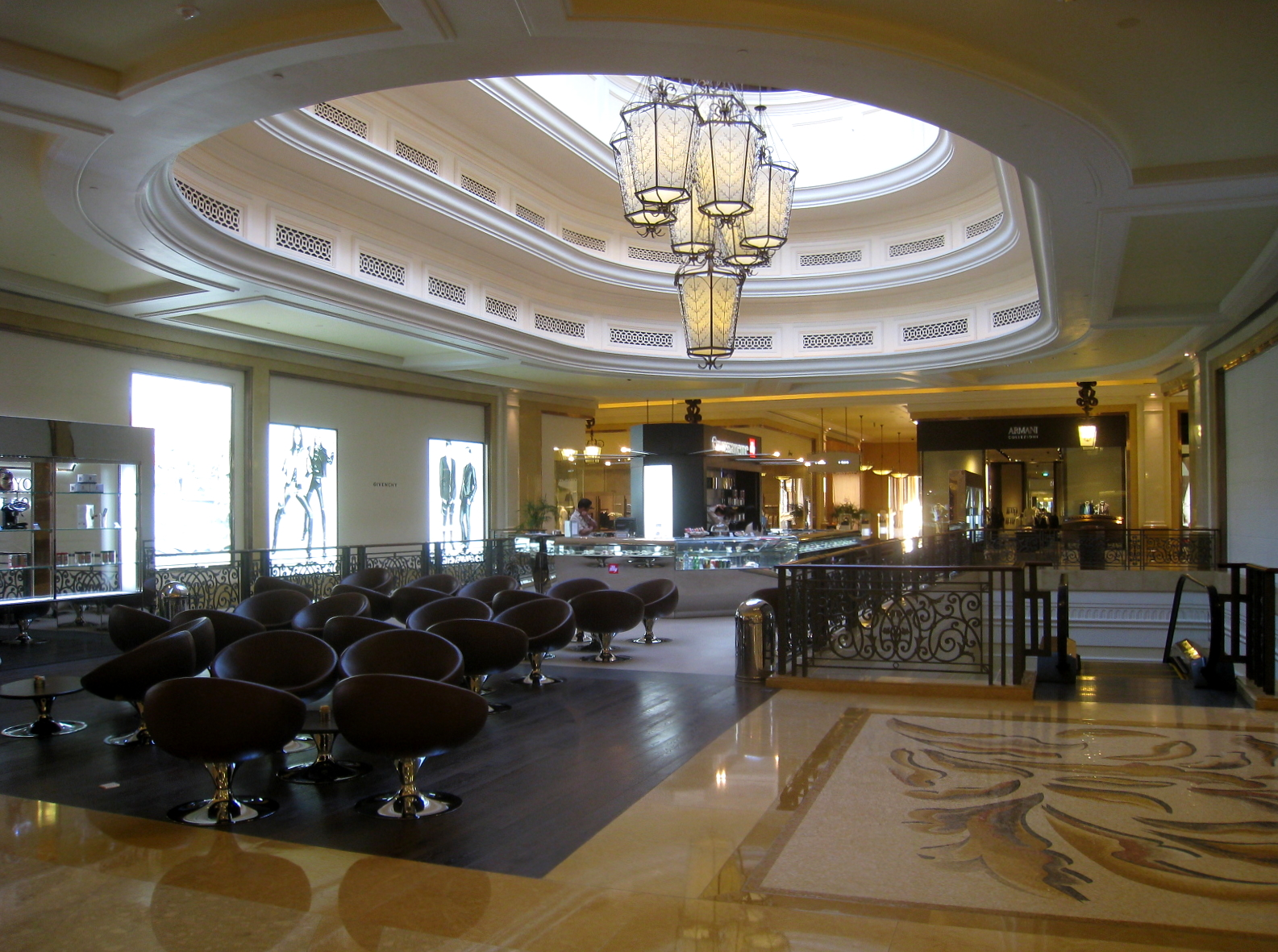 Four Seasons Hotel & Resort Macao 四季酒店 (澳門)